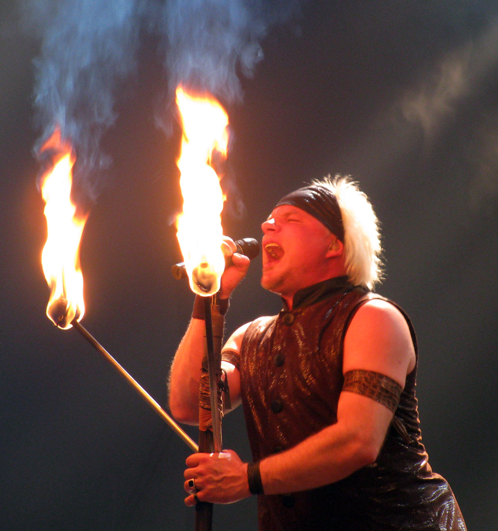 Eric Fish, singer of Subway to Sally, at the Rocksound-Festival 2008